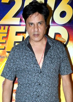 Rahul Roy at trailer and poster launch of 2016 The End.